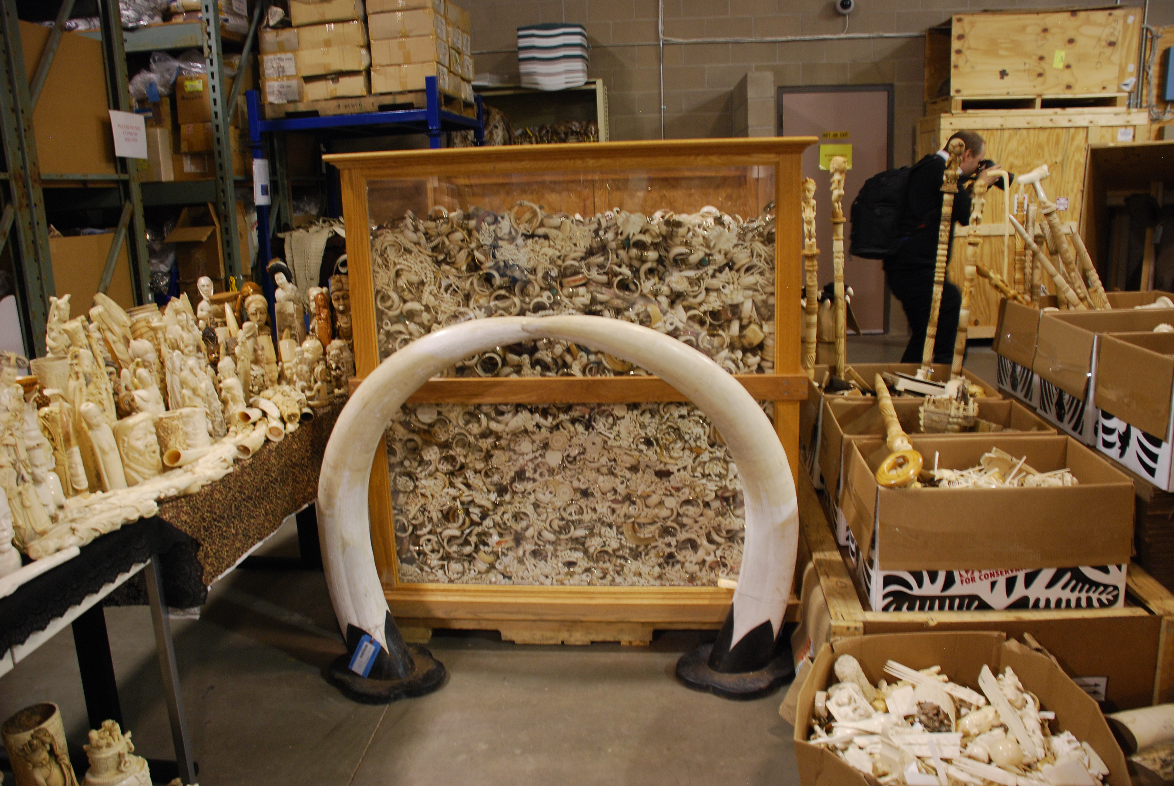 Photo Credit: Kate Miyamoto / USFWS USFWS ivory crush at Rocky Mountain Arsenal National Wildlife Refuge on November 14, 2013